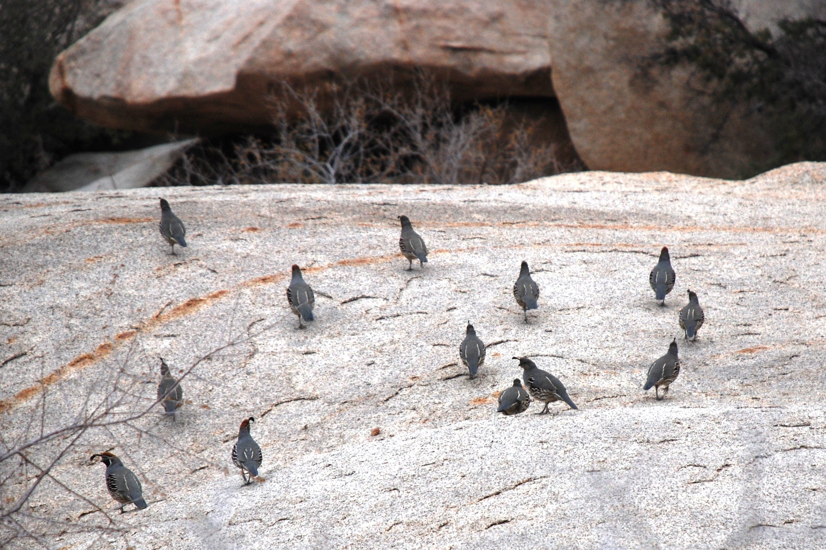 Group of Gambel's Quails (Callipepla gambelii) in Joshua Tree National Park near Hidden Valley Campground